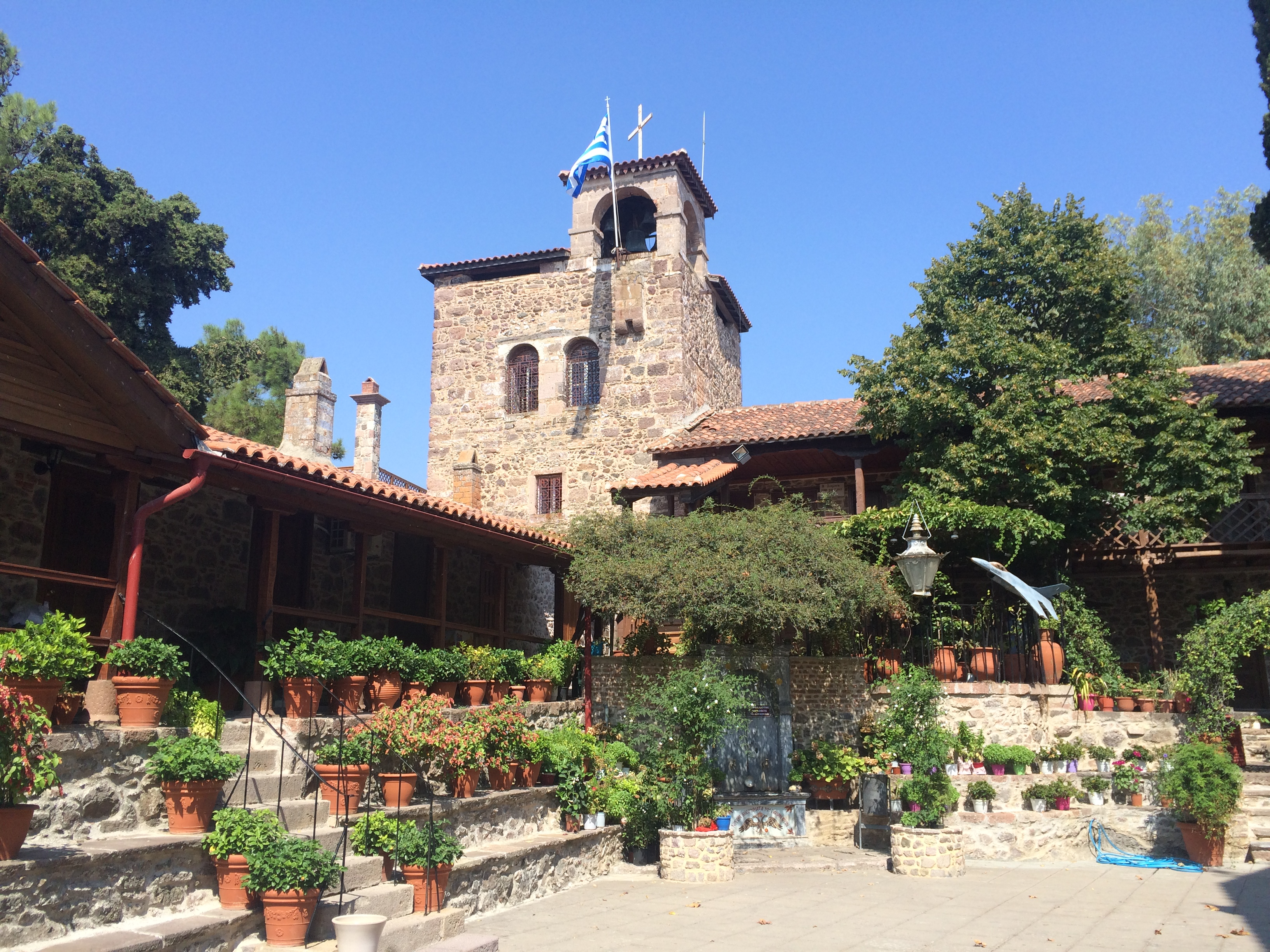 Taxiarchis (Archangel Michael) Monastery, Mantamados